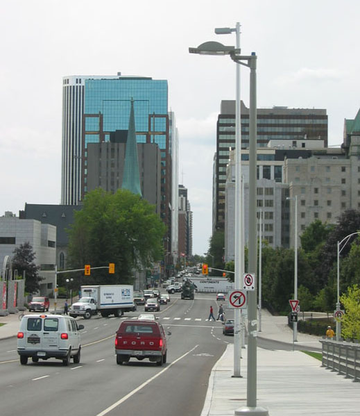 Laurier Avenue, Ottawa, Ontario, looking west from bridge.